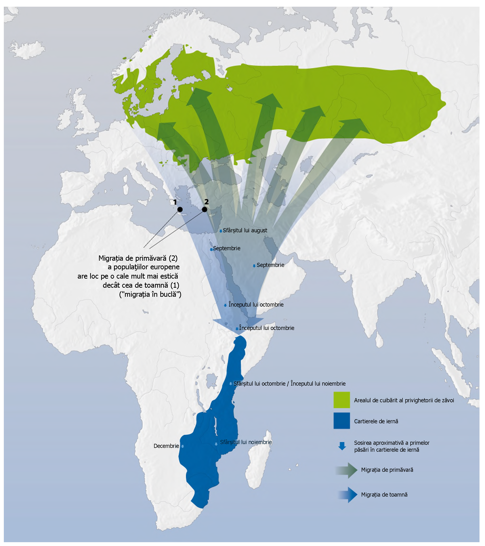 Migration Thrush Nightingale